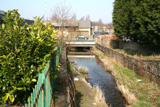 Walverden Water, Nelson, Lancashire This small stream rises in the hills a few miles east of Nelson, and after feeding a reservoir, it runs through the centre of the town, where it is known disparagingly as " 't Goit". Eventually most of its contents find their way into Pendle Water and finally the Irish Sea.